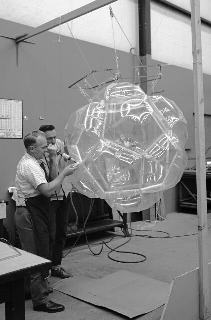 In October 1965, JPL was working on various methods to enable a spacecraft to safely reach the surface of a planet. One of these was an "impact limiter" that would cushion the impact of landing. Unlike the airbags used by Mars Pathfinder and the Mars Exploration Rovers, this object was not designed to bounce, but to deflate immediately after impact, like an airbag in a car. The prototype impact limiter included a series of Mylar "convexities" or domes, Mylar/nylon webbing, and cords made of music wire. The domes were clear to allow photographs of the payload upon impact. The limiter held a 12.2 pound payload suspended in the middle of the polyhedron. Before the impact limiter was assembled, its components were tested. There was a tensile test of the cords and webbing and a pressure test of one Mylar dome, which failed at 12.5 psi (about 7,000 pounds of force). The photo above shows Sheet Metal Shop technicians J.R. (Jimmy) Kallen (front) and E.A. (Gene) Otto fabricating the prototype. The prototype impact limiter was about five feet in diameter, the largest that could be tested in JPL's vacuum chamber, launched from a pneumatic cannon. See photograph number 355-1387Bc to learn more about the impact tests.